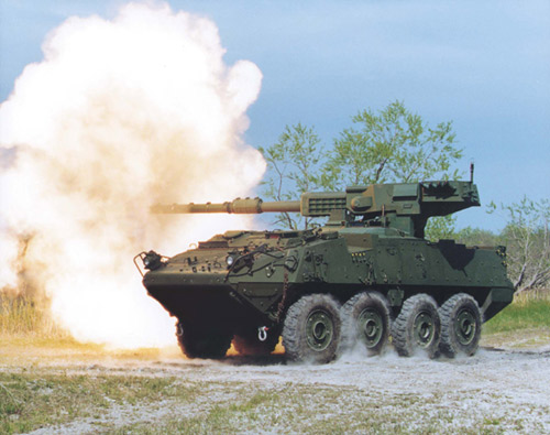 Stryker Mobile Gun System - en train de tirer/firing